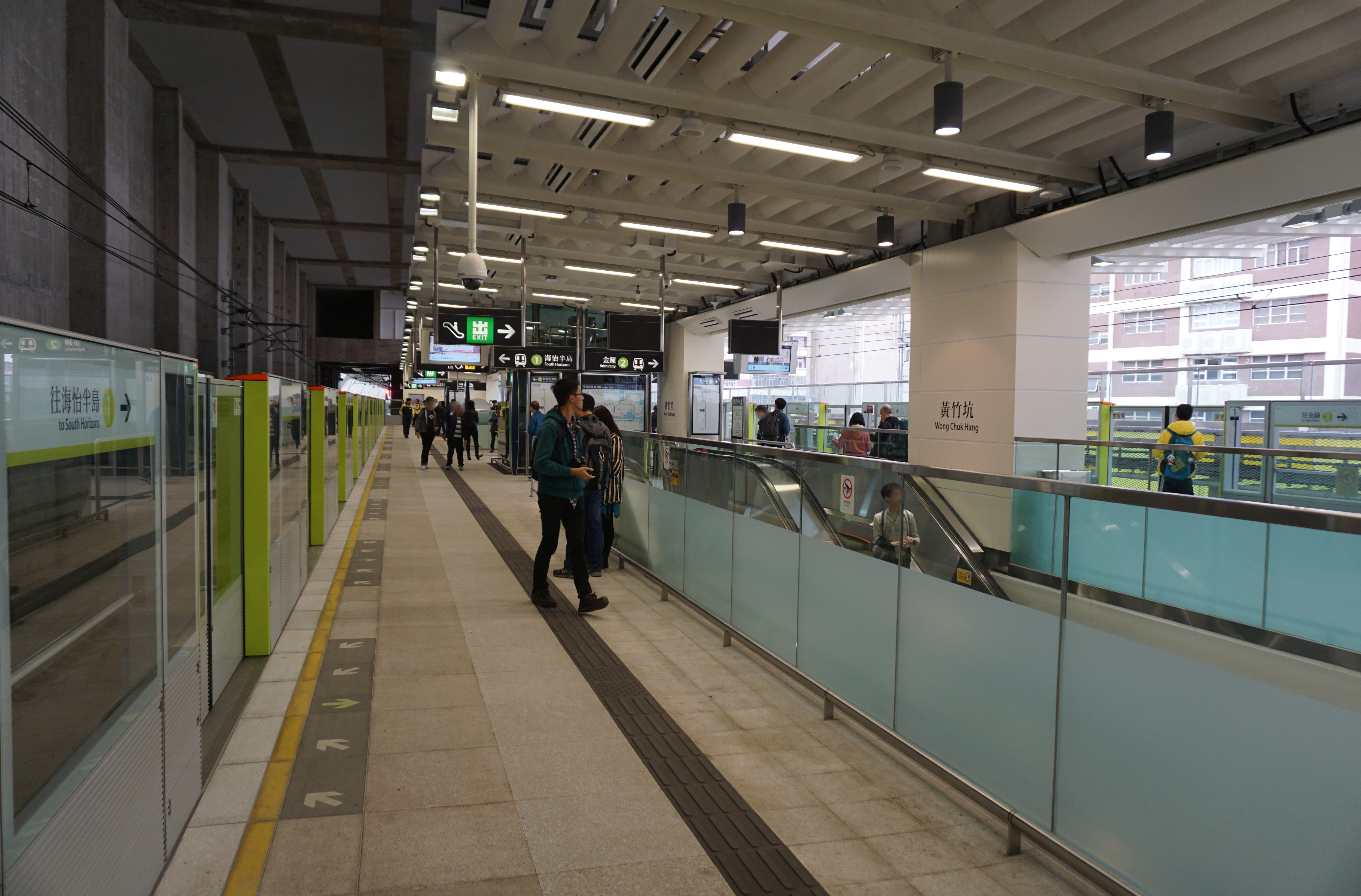 Wong Chuk Hang Station in Southern District, Hong Kong.